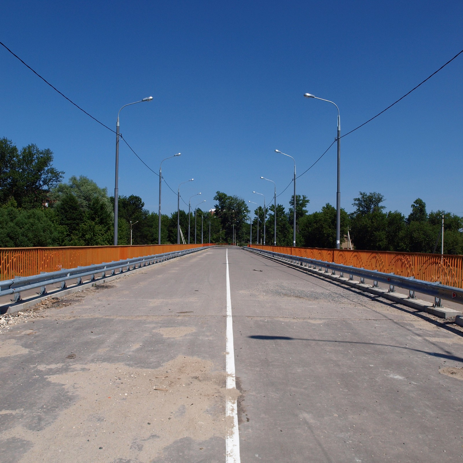 Pavlovsky Posad. The bridge over the Vokhna River connecting Parizh neignborhood with Vokhna railroad station. It is completed but closed indefinitely ("leads to nowhere").